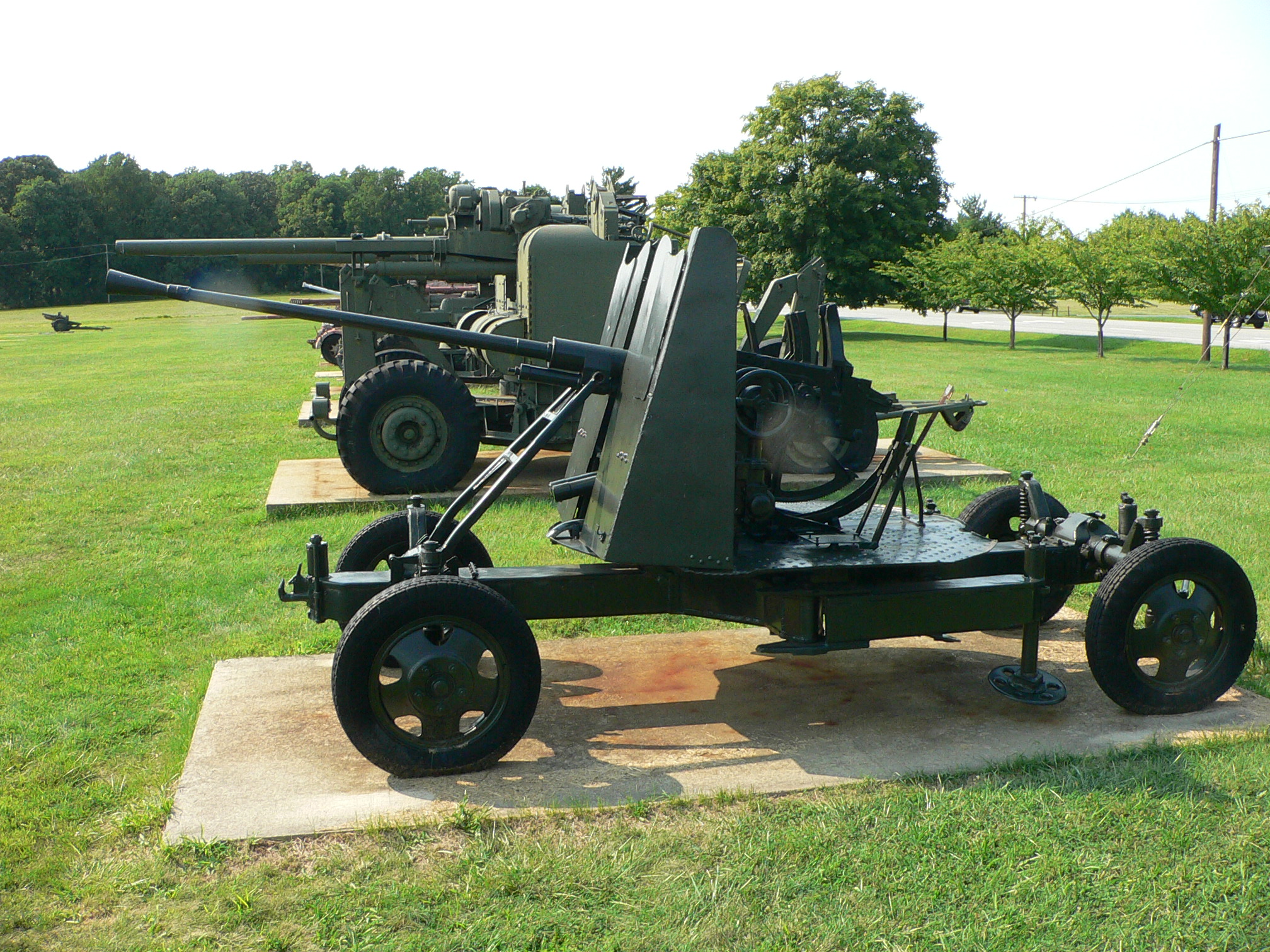 Picture taken by myself, Mark Pellegrini, at the United States Army Ordnance Museum (Aberdeen Proving Ground, MD) on August 14, 2007.